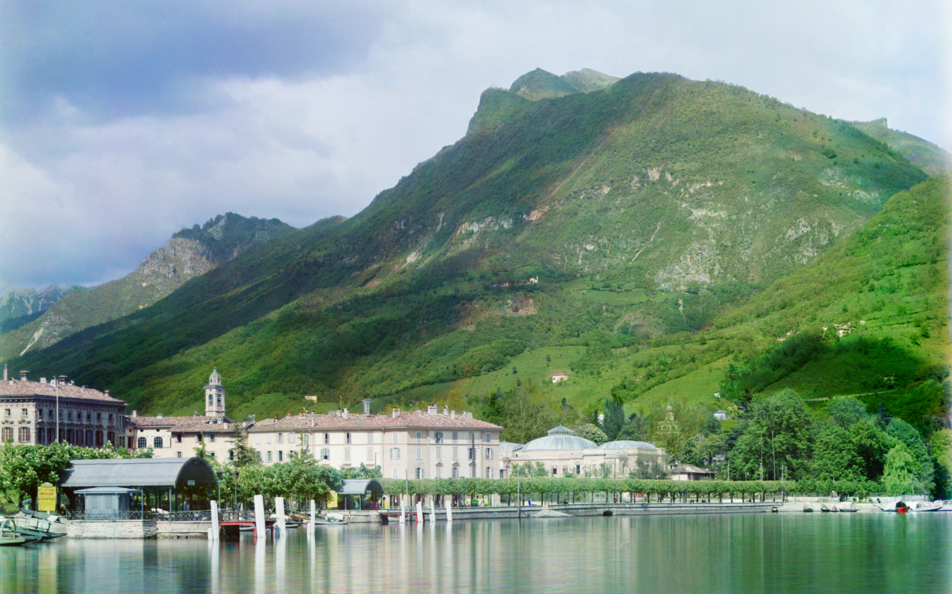 Lugano in the early 20th century with Monte Bre and Monte Boglio behind.